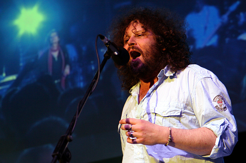 Roman Holý (Žebřík 2008 - DK Inwest, Plzeň)